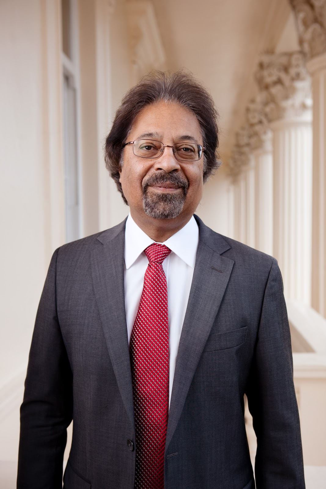 Tejinder Virdee at the induction ceremony at the Royal Society